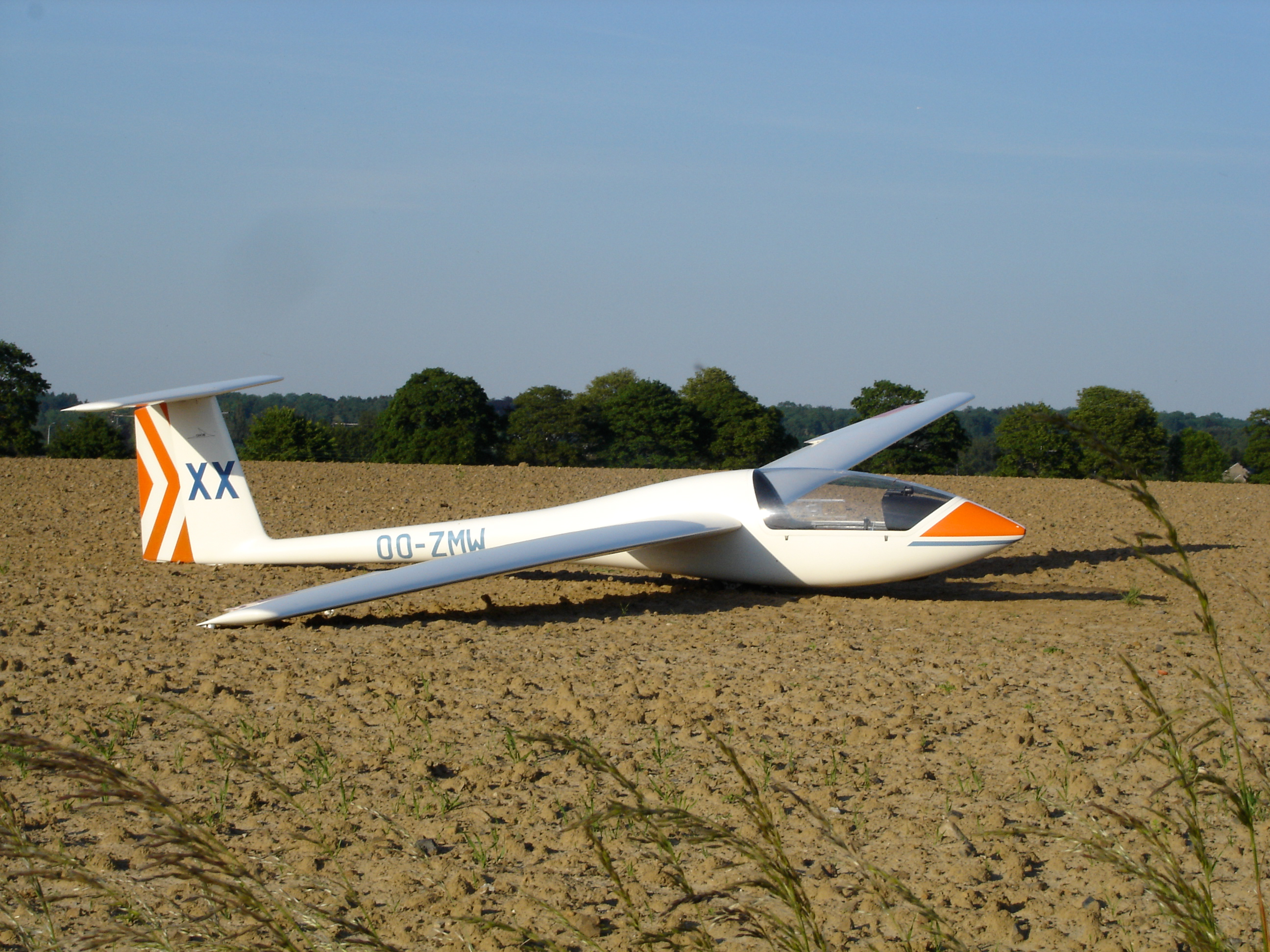 Grob G 102 Club Astir II (Astir CS Jeans)